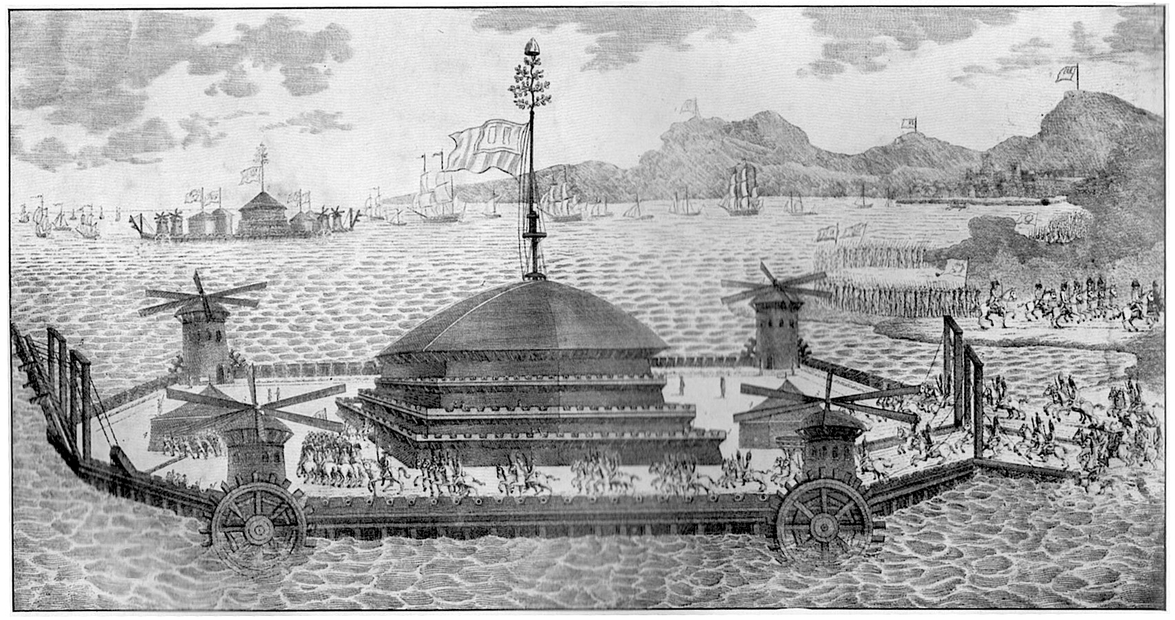 Flat-bottomed eolian barge of Le Blanc (1798) for invading Great-Britain, proposed to Napoleon I